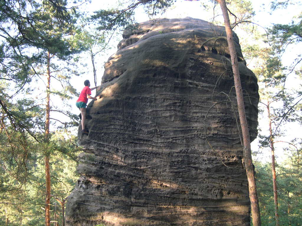 sandstone tower "Kral", climbing area Zbirohy, "Normal route" clas.III.